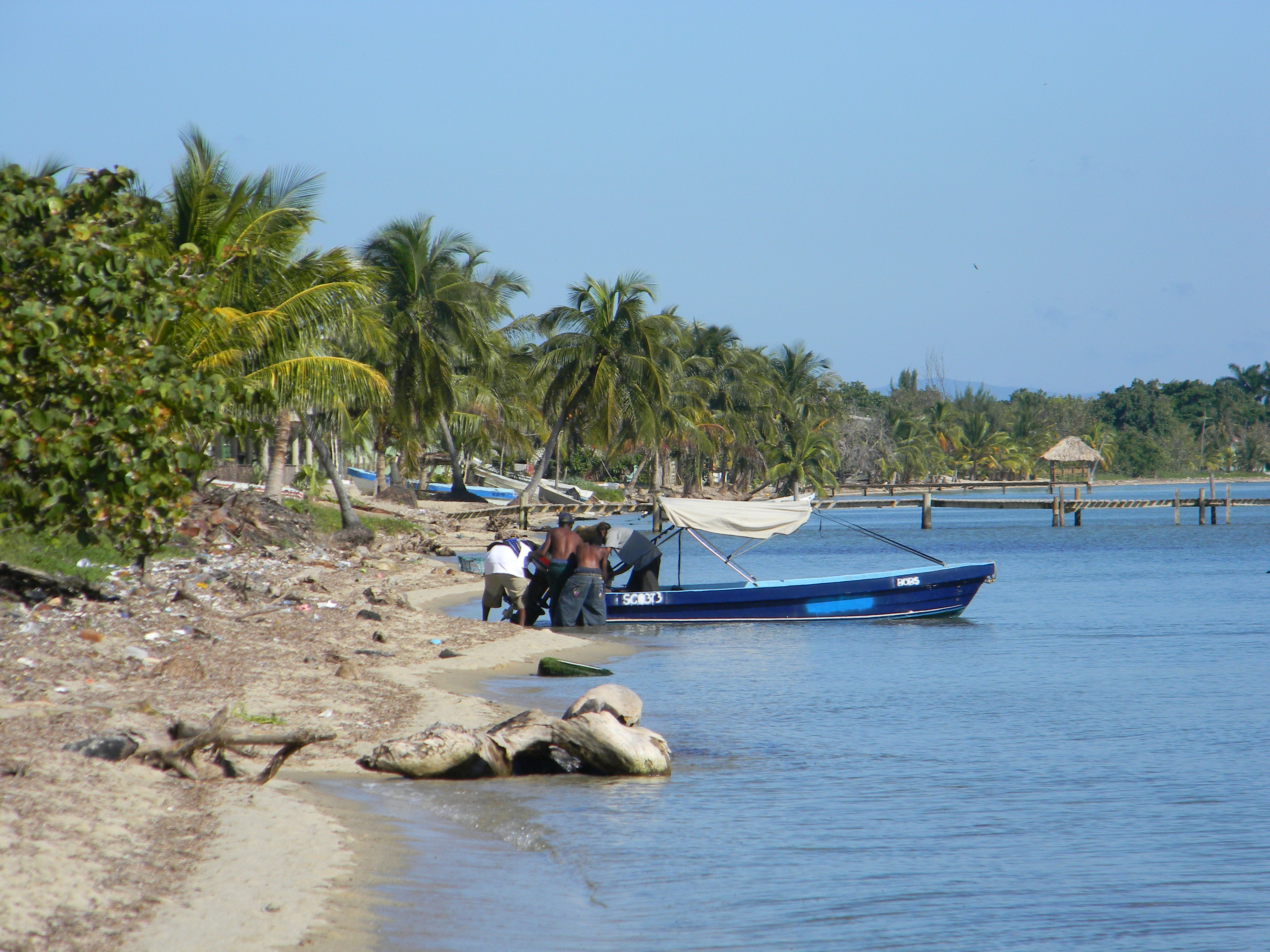 Fisherman's of Belize